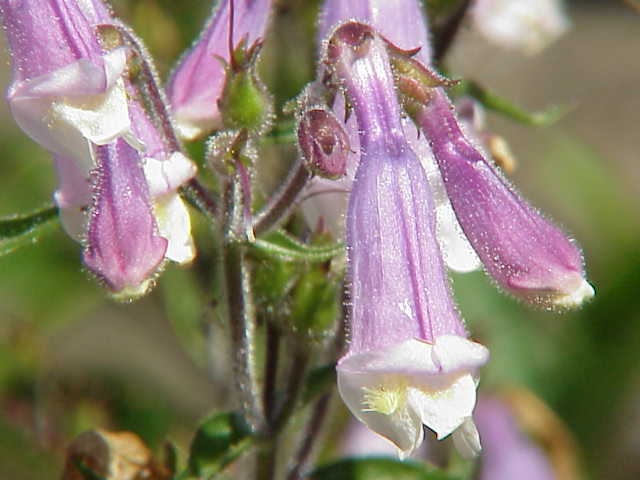 Species: Penstemon hirsutus (pubescens) Family: Plantaginaceae Image No. 1